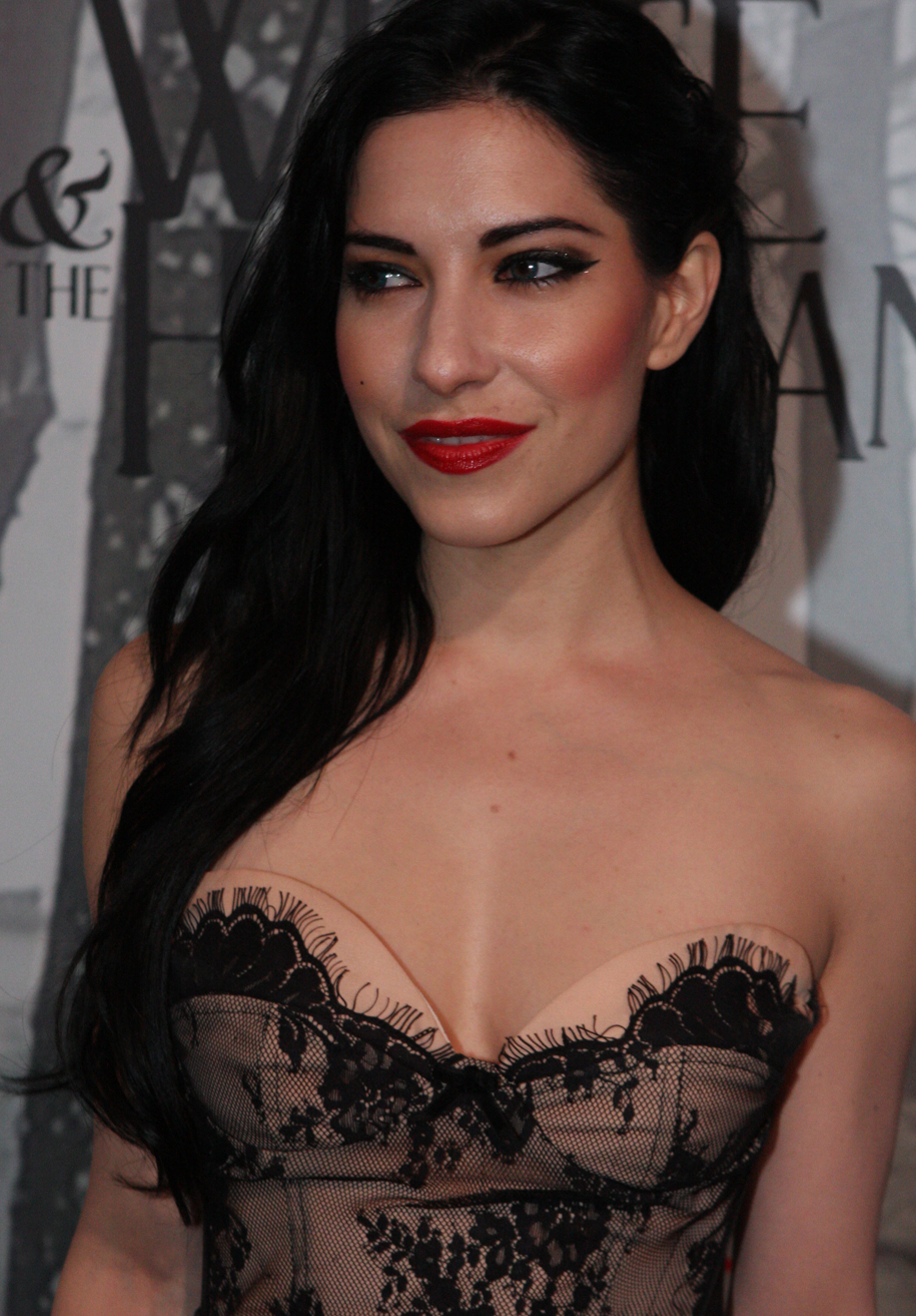 Lisa Origliasso at the Snow White and the Huntsman movie premiere - Bondi Junction, Sydney Australia 2012.